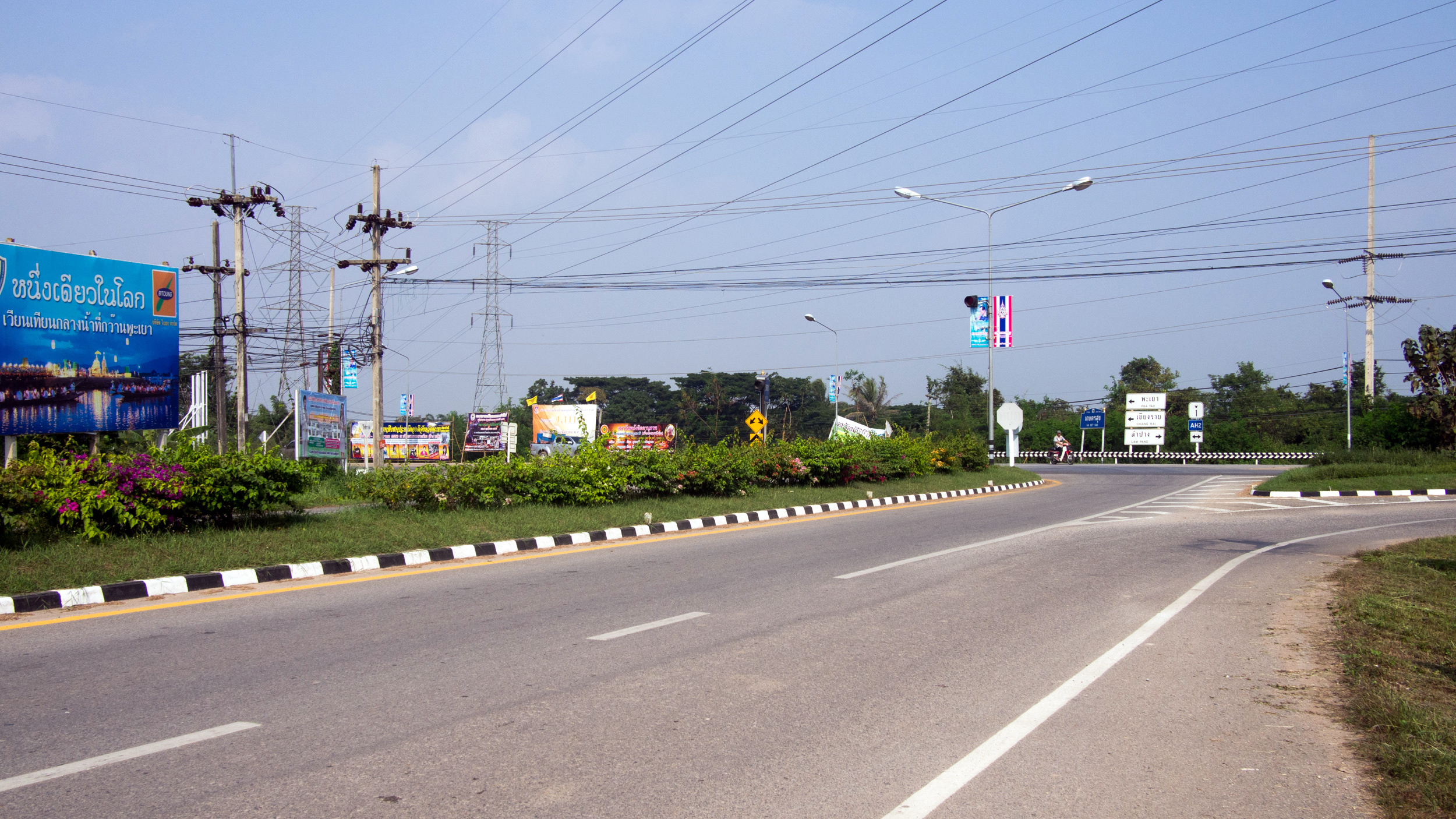 Ka Set Suk junction, where Highway 1/AH 2 intersect with route 120. View east towards the junction, seen from route 120.